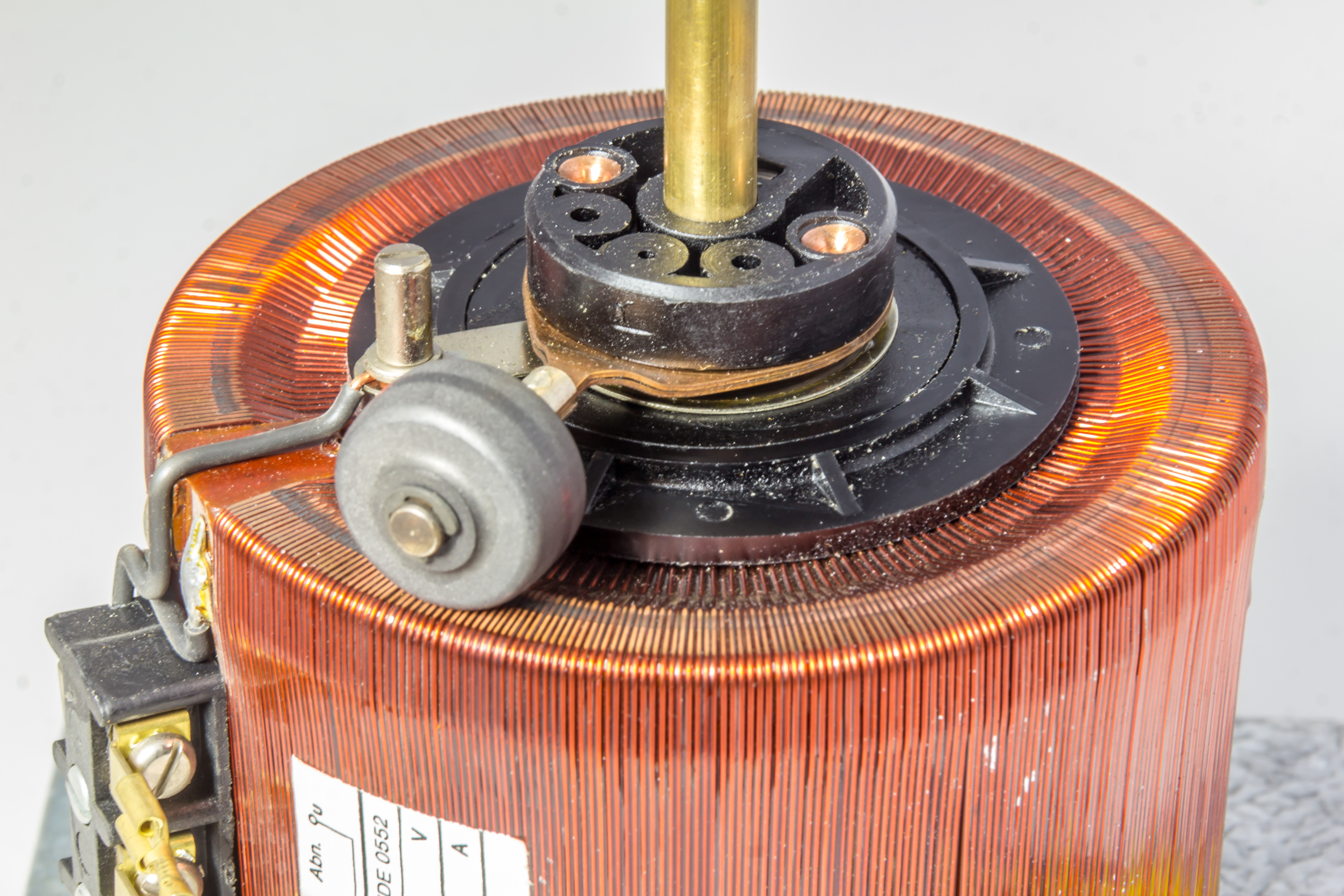 Variable autotransformer 0-220 V, 4 A, 880 VA